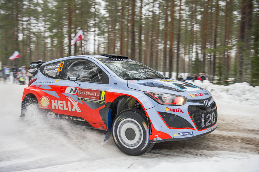 Rally Sweden 2014 Fredriksberg 1,Hyundai Motorsport,Hyundai i20 WRC,Juho Hänninen,Motorsport,Rally,Rally Sweden,Rallye,Rallye Schweden,SS9,Tomi Tuominen,WP9